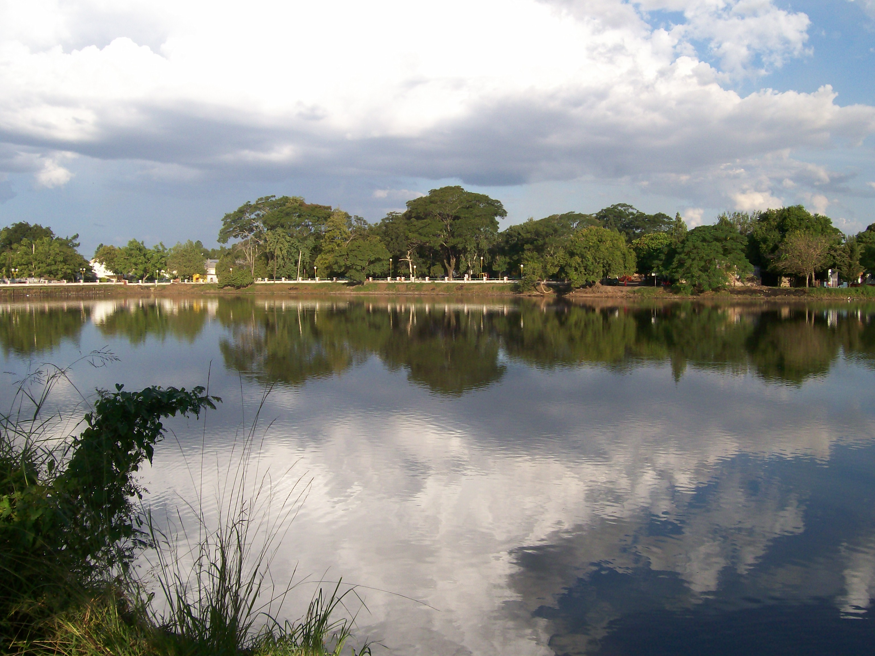 Beligoy lagoon seen from Puerto Tirol's train station. Centered trees correspond to main town square. Puerto Tirol, Chaco, Argentina.